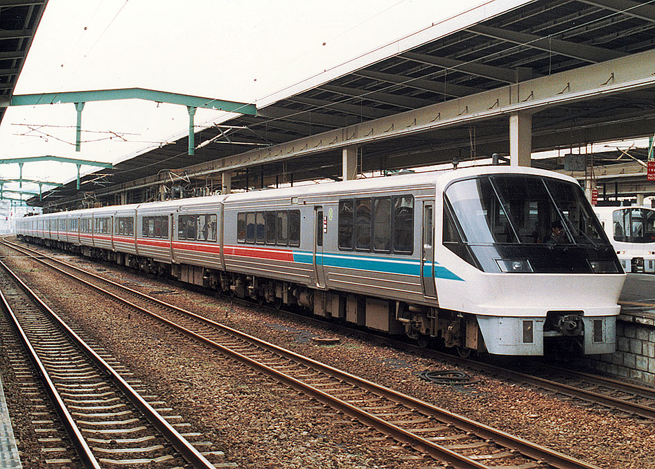 JR Kyushu 783 series EMU on a "Kamome" service